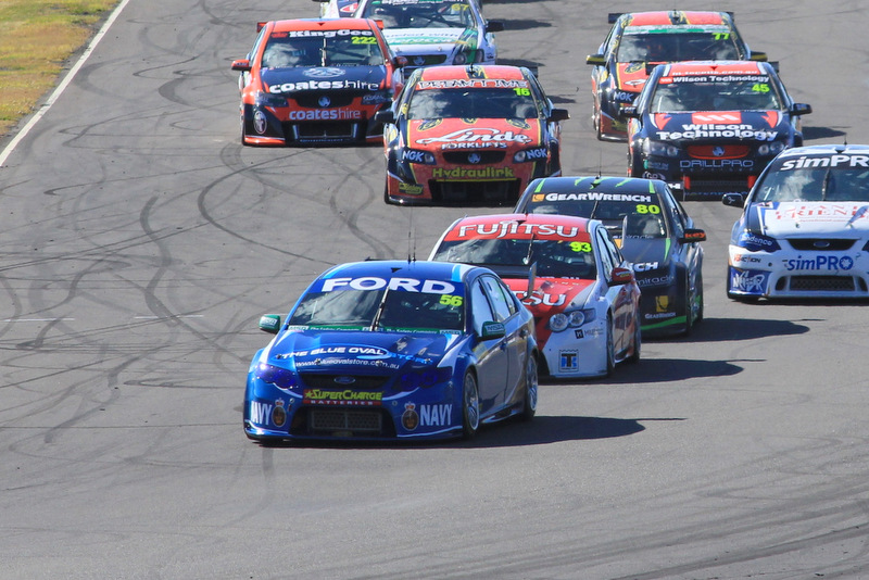 Chaz Mostert leading race 3 of the Coates Hire Ipswich 300 support race.